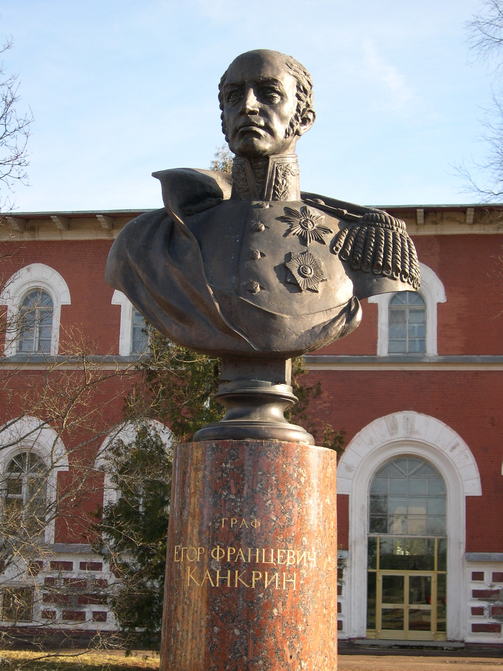 Monument_to_Kankrin_by_Lisino-Korpus